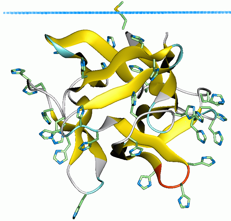 Protein image from OPM database